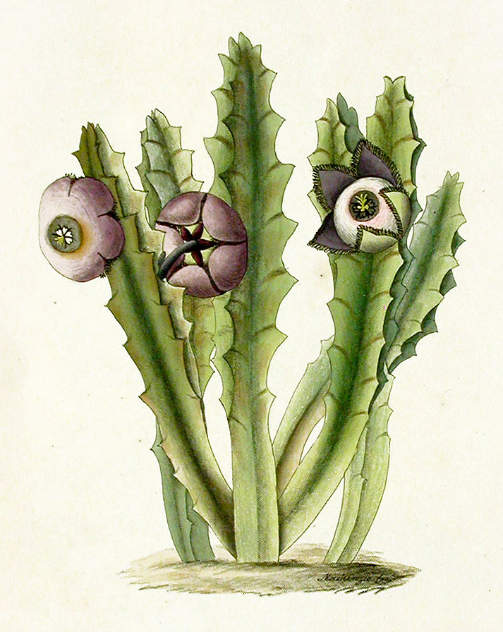 Stapelia revoluta Masson is a synonym of Tromotriche revoluta (L.) Haw.